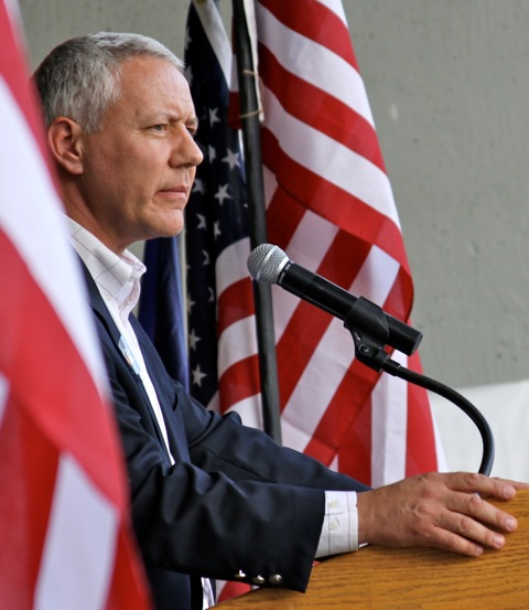 Ken Buck, a U.S. Senate candidate for Colorado, speaking at the public event Loveland Freedom Rally on June 20, 2010.